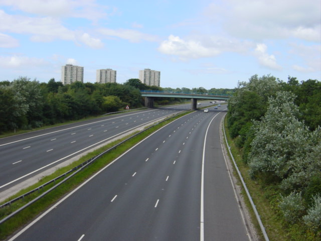 M57 from Knowsley Lane. View of the M57 Northwards from the bridge on Knowsley Lane (B5194). On the left can be seen the three tower blocks of Stockbridge Village